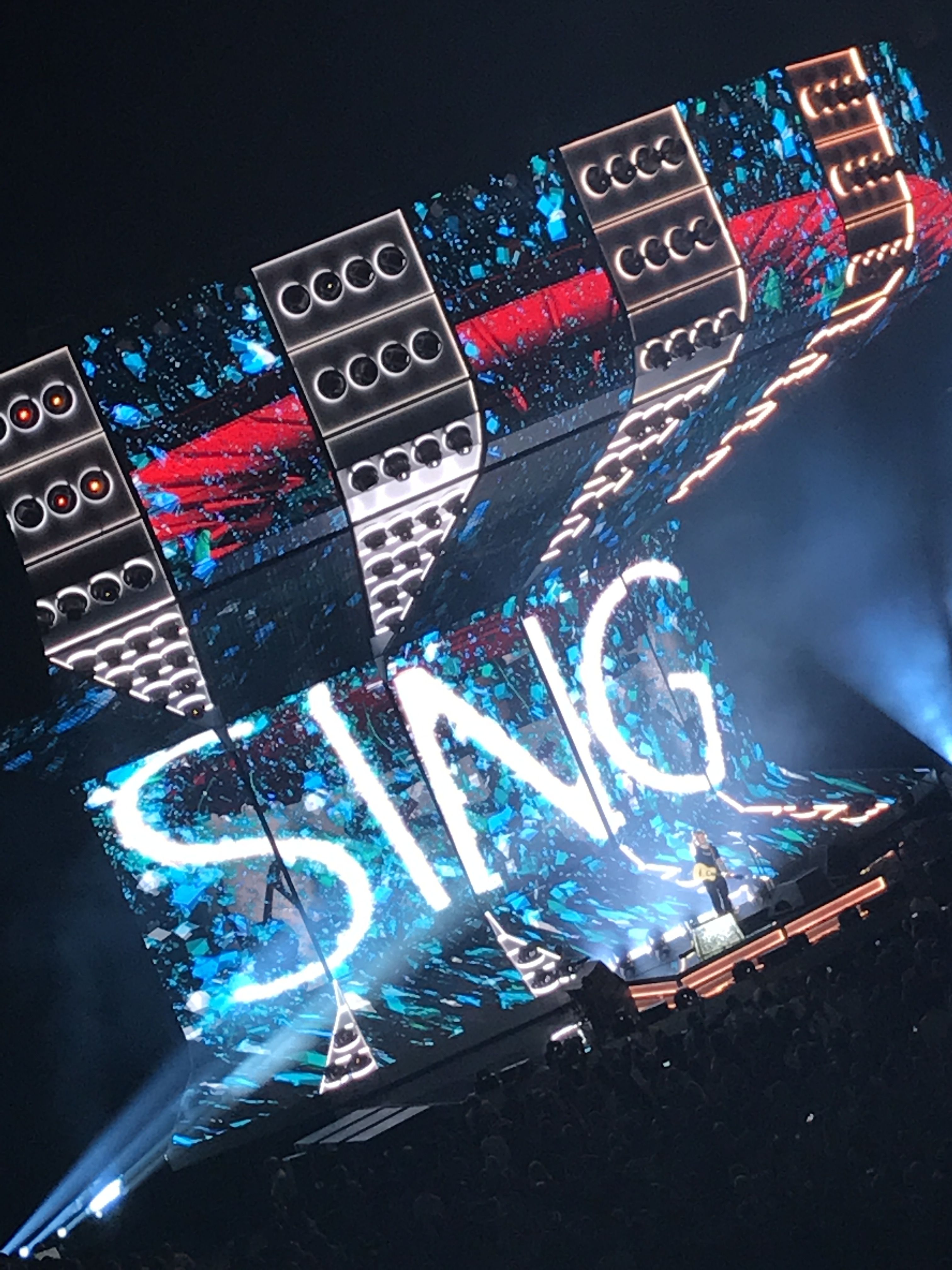 Ed Sheehan performing at the American Airlines Arena in Miami, FL during his Divide Tour.